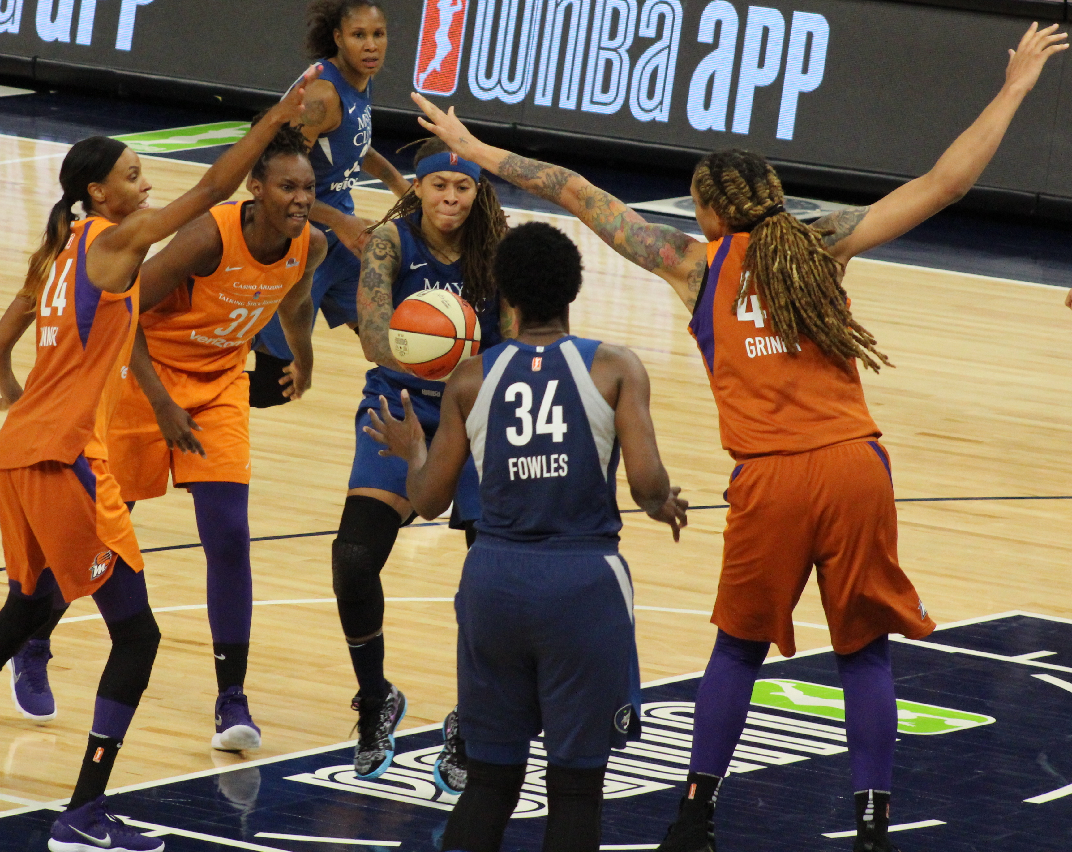 Seimone Augustus passing the ball to Sylvia Fowles, surrounded by Phoenix Mercury players Bonner, Lyttle and Brittney Griner in 2018